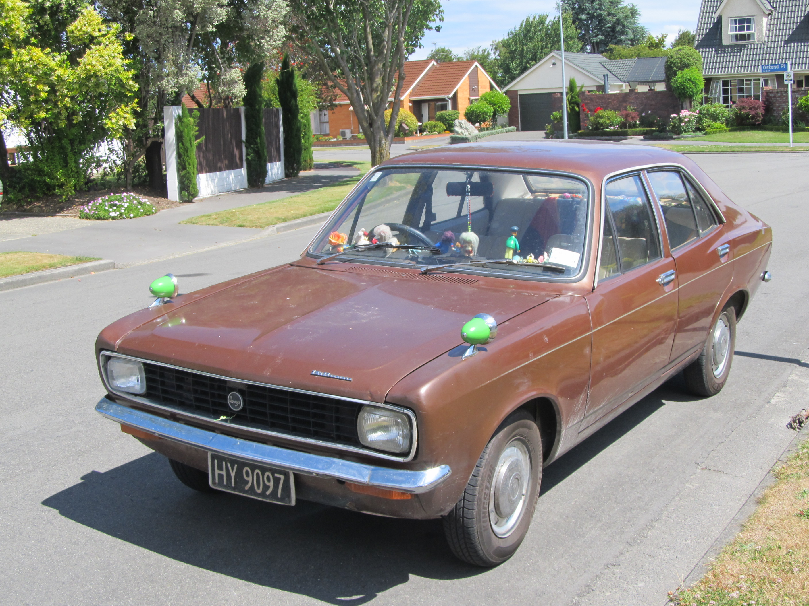 HY9097 This was quite an intriguing spot, as it has been modified to a certain taste. I think we can safely assume the owner is over 50 years old...